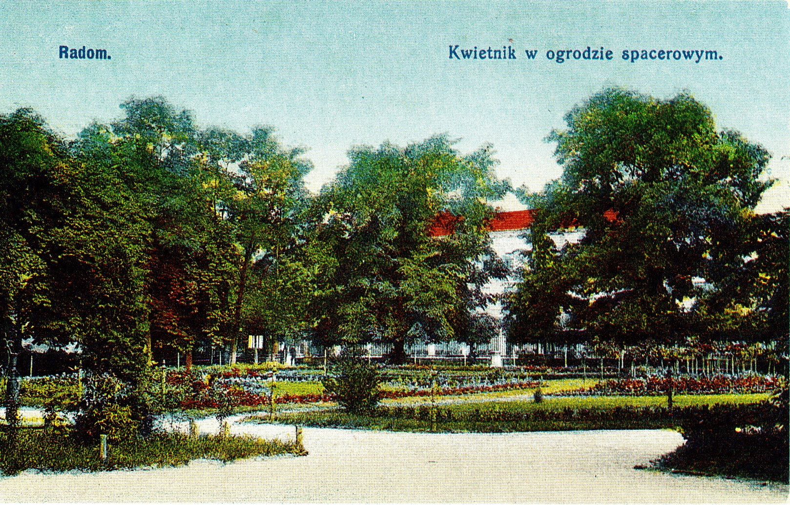 Saxon Garden in Radom, Poland (1900)